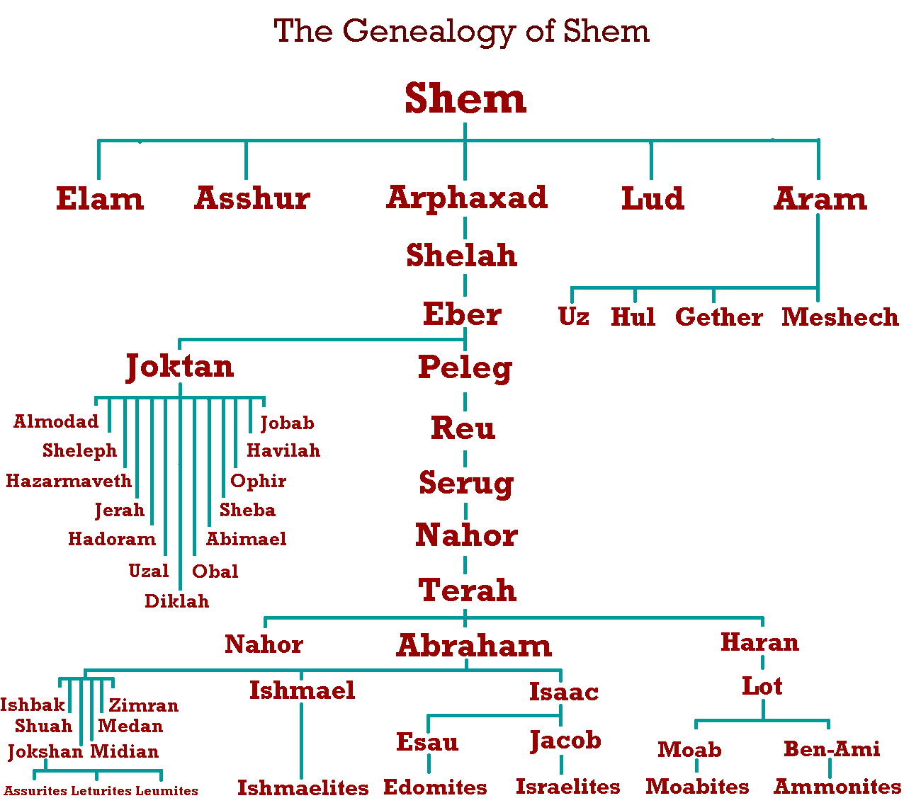 The genealogy of Shem to Abraham according to the Holy Bible (Genesis), showing the origin of the Moabites, Israelites, Amonites, Ishmaelites, Edomites, Midianites, Assurites, Leturites and Leumites.